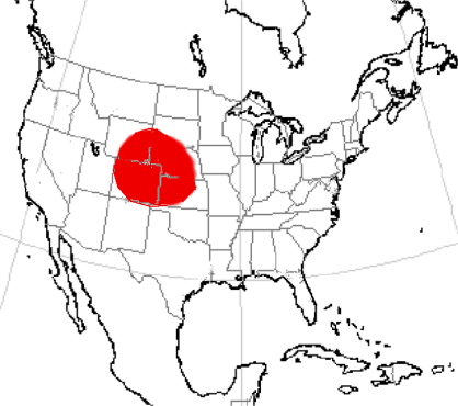 Range of Syndyoceras based on fossil record